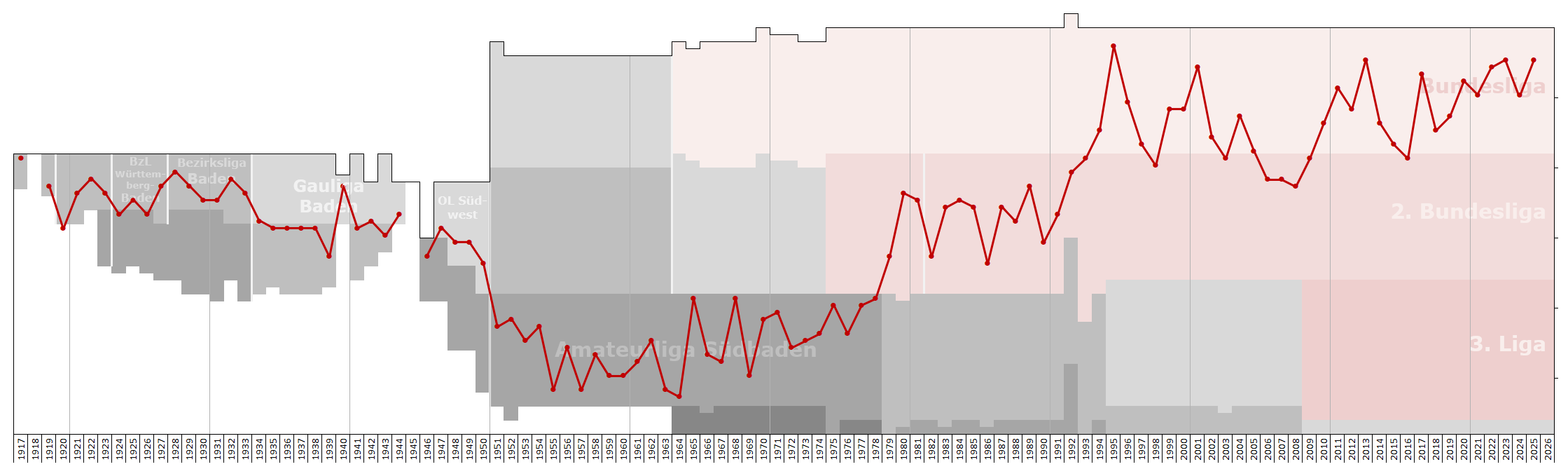 Chart of end-season table positions of SC Freiburg in the football league system of Germany. Data source: RSSSF, wikipedia, f-archiv.de, fussball.de